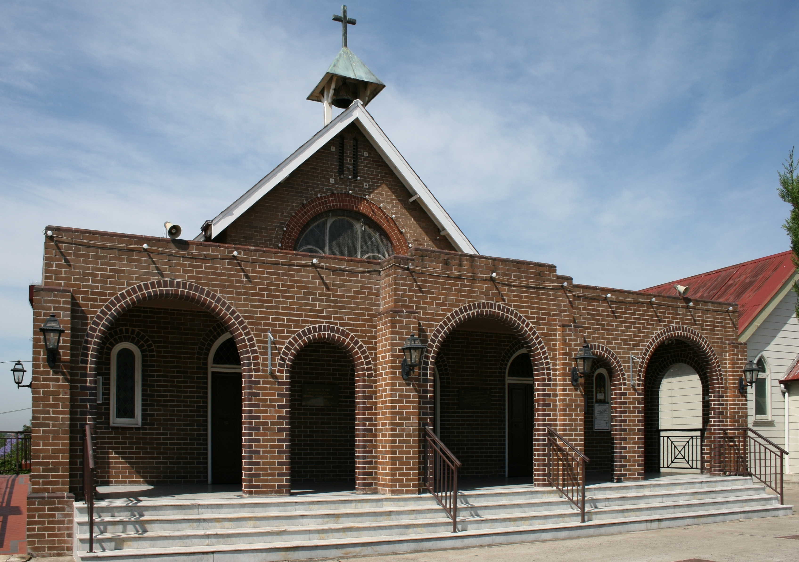 St. Stephanos Greek Orthodox Church, 650 New Canterbury Road, Hurlstone Park, New South Wales (NSW), Australia.